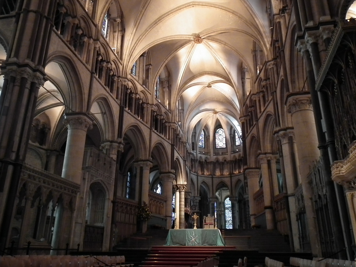 Canterbury Cathedral, Canterbury, England